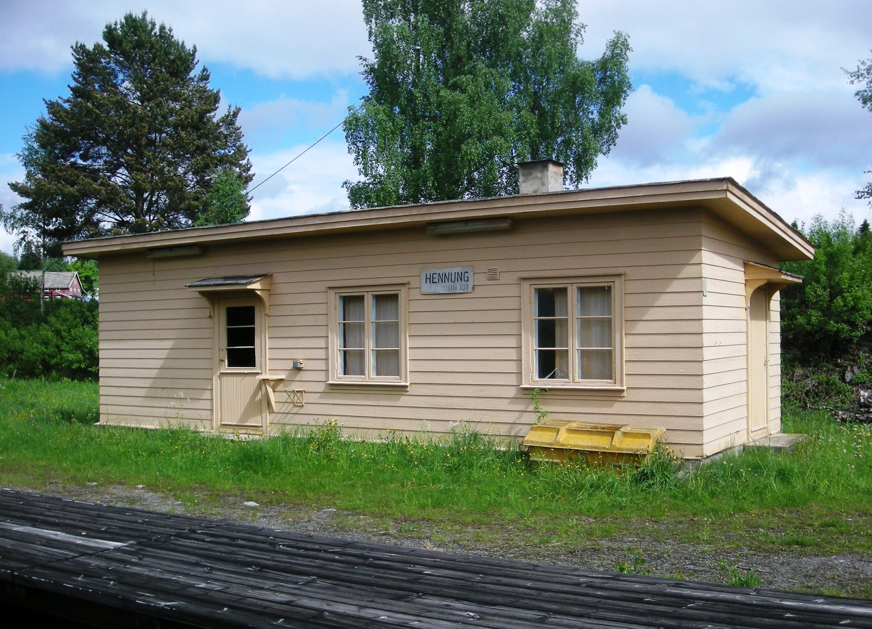 Hennung station on the Gjøvik line